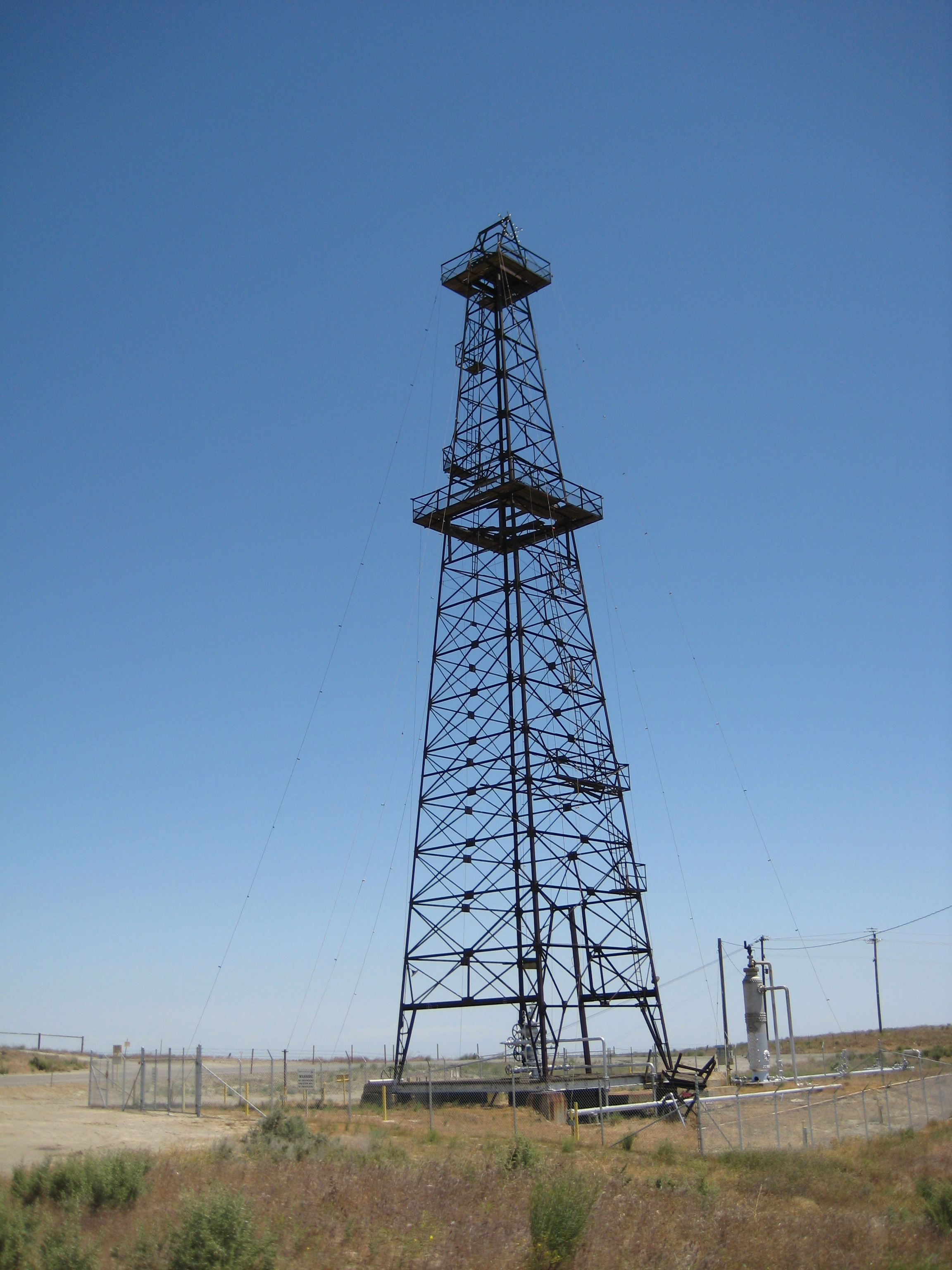 The photo is of an old oil well derrick in the Kettleman North Dome Oil Field located on Skyline Boulevard (SR 269) near Avenal, CA.